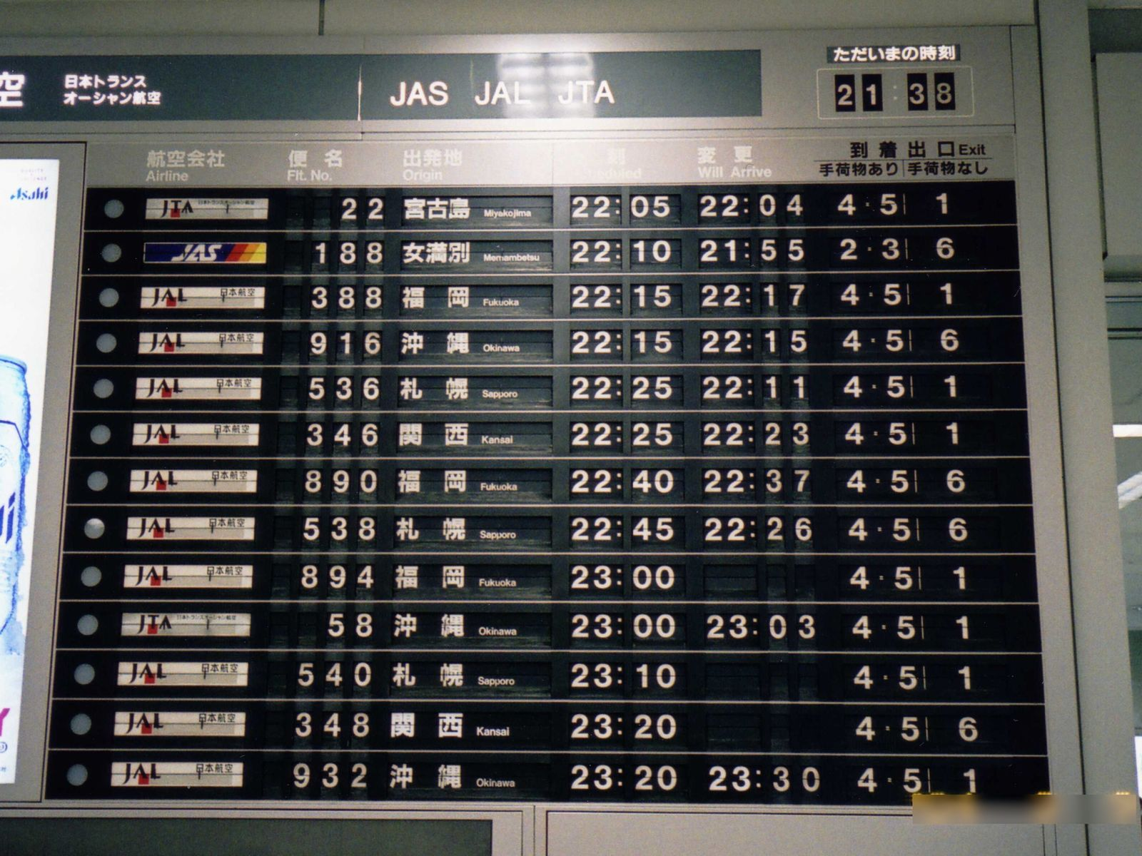 Tokyo International Airport ,Arrival lobby